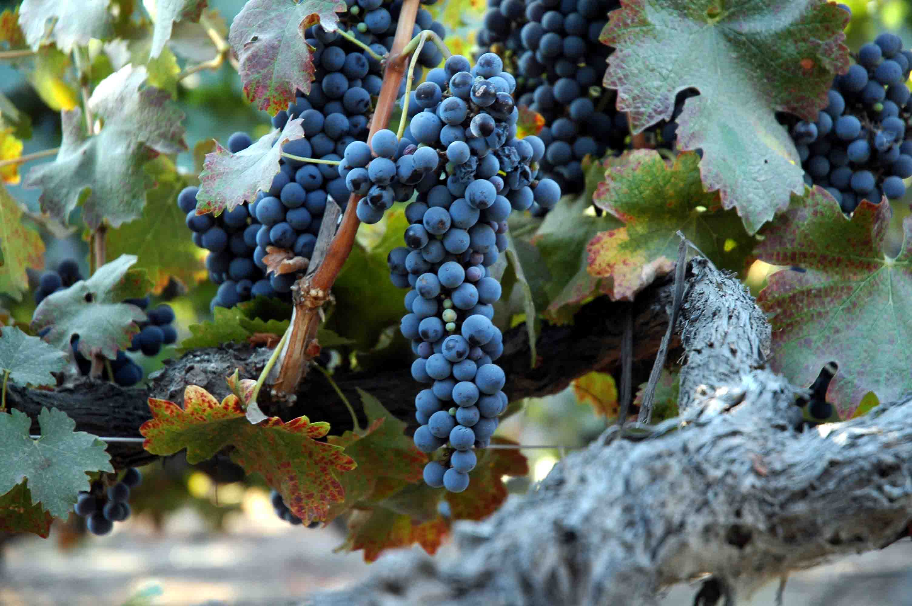 Old vine Shiraz / Lighter version